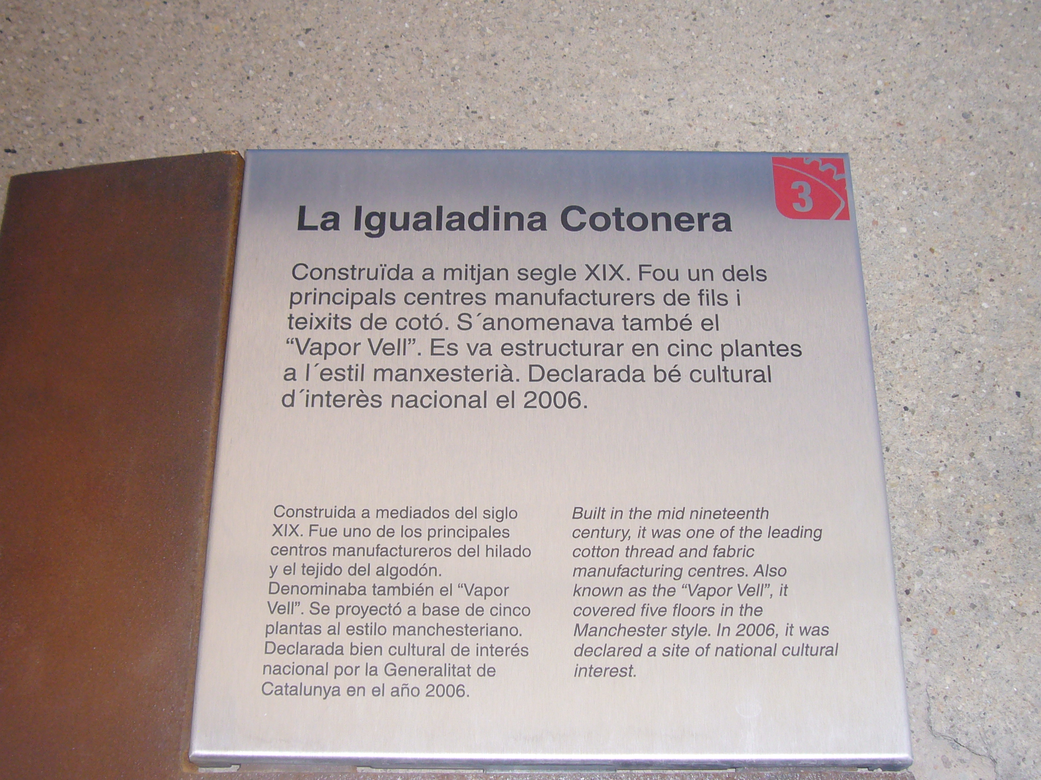 "Igualadina Cotonera" old cotton factory , in Igualada, Catalonia